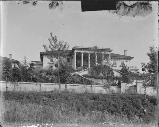 Broadbridge, R. 1912